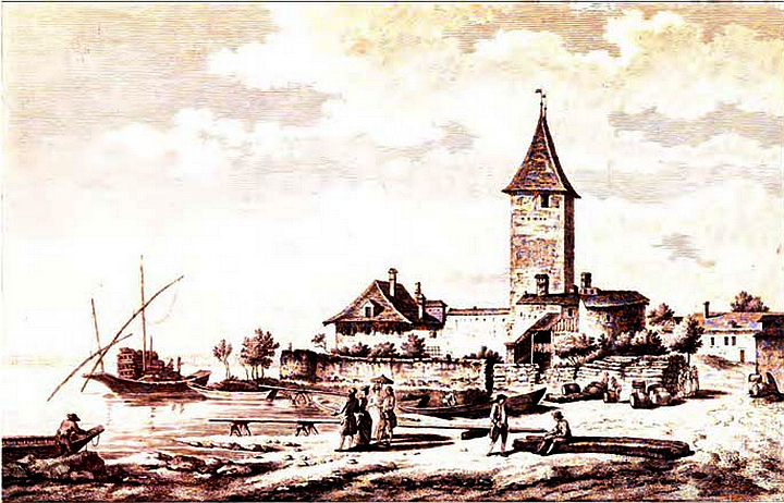 Ouchy in Lausanne : Ouchy castle in the year 1784, Jean-Benjamin de La Borde